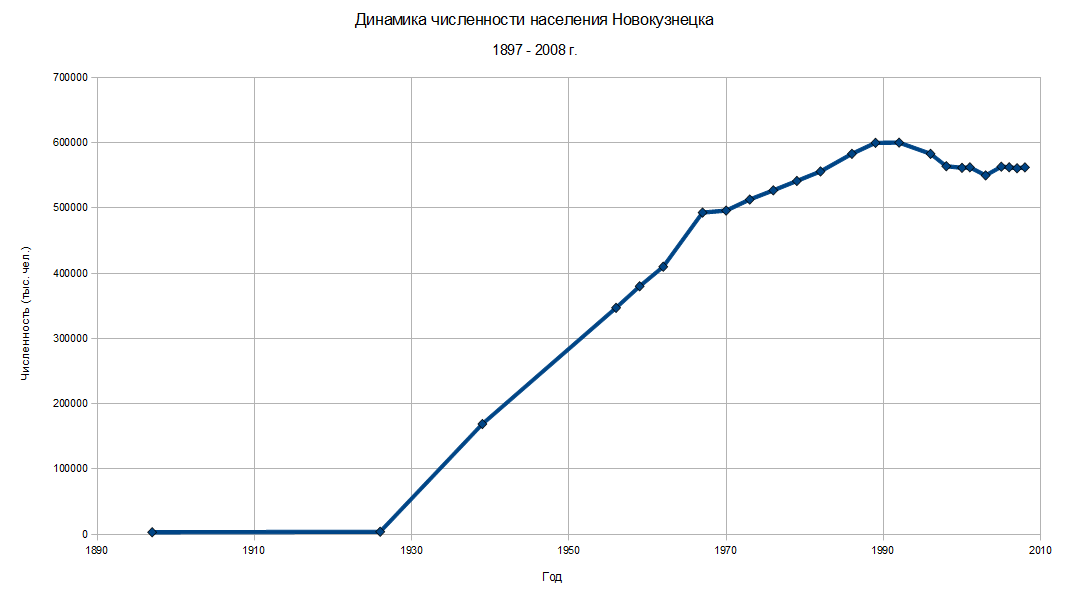 Novokuznetsk's population (1897-2008).